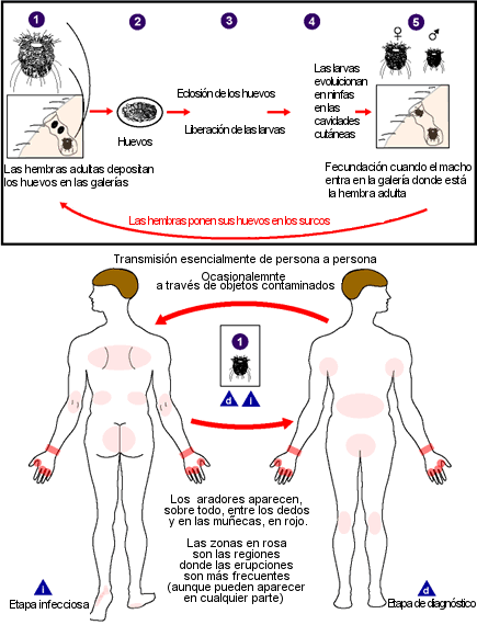 Scabies Life Cycle